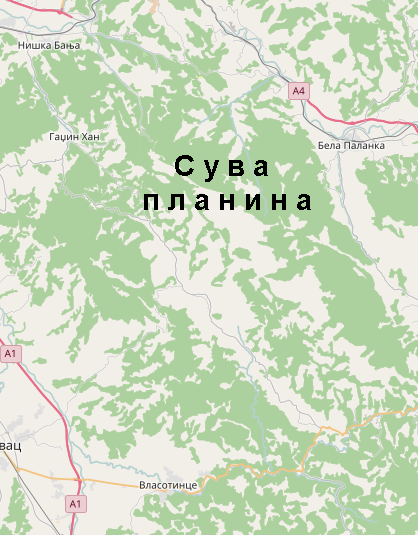 OpenStreetMap of Suva Planina, in Serbia.